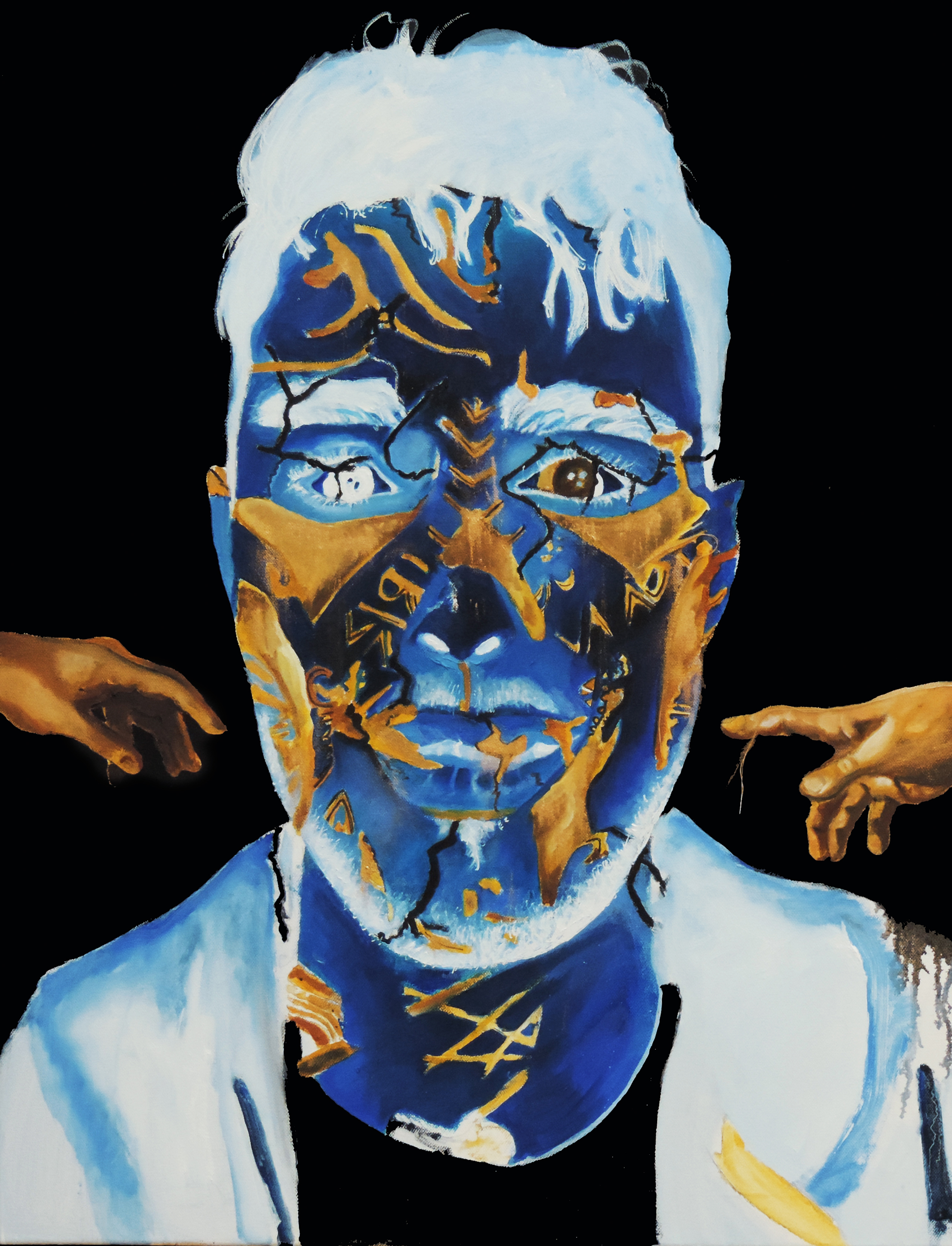 Beyond the Blue Void’ is Sirio’s first oil-based self-portrait. While his face is cracked, bits of gold are used to ‘repair' his portrait, as the Japanese tradition of repairing with gold, Kintsugi, suggests that the medium becomes more valuable. Many patterns related to the early Albanian gold embroidered folkloric dresses can be observed, making in this way a link to his culture and it’s importance to self-identity. In this way, different from Blue Void, the golden cracks symbolize light. Created by Sirio Berati (@sirio)